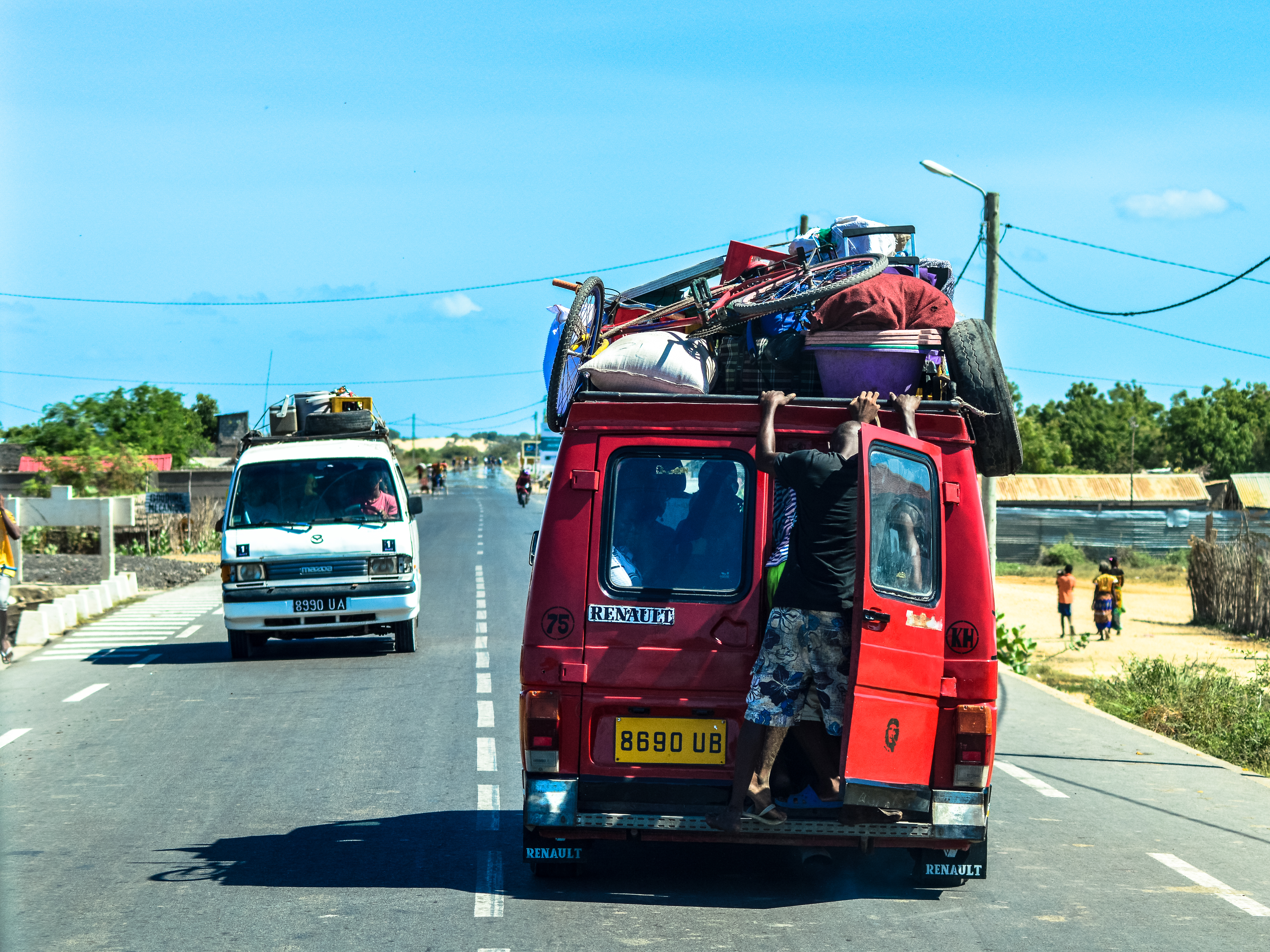 This is an image with the theme "Africa on the Move or Transport" from: Madagascar